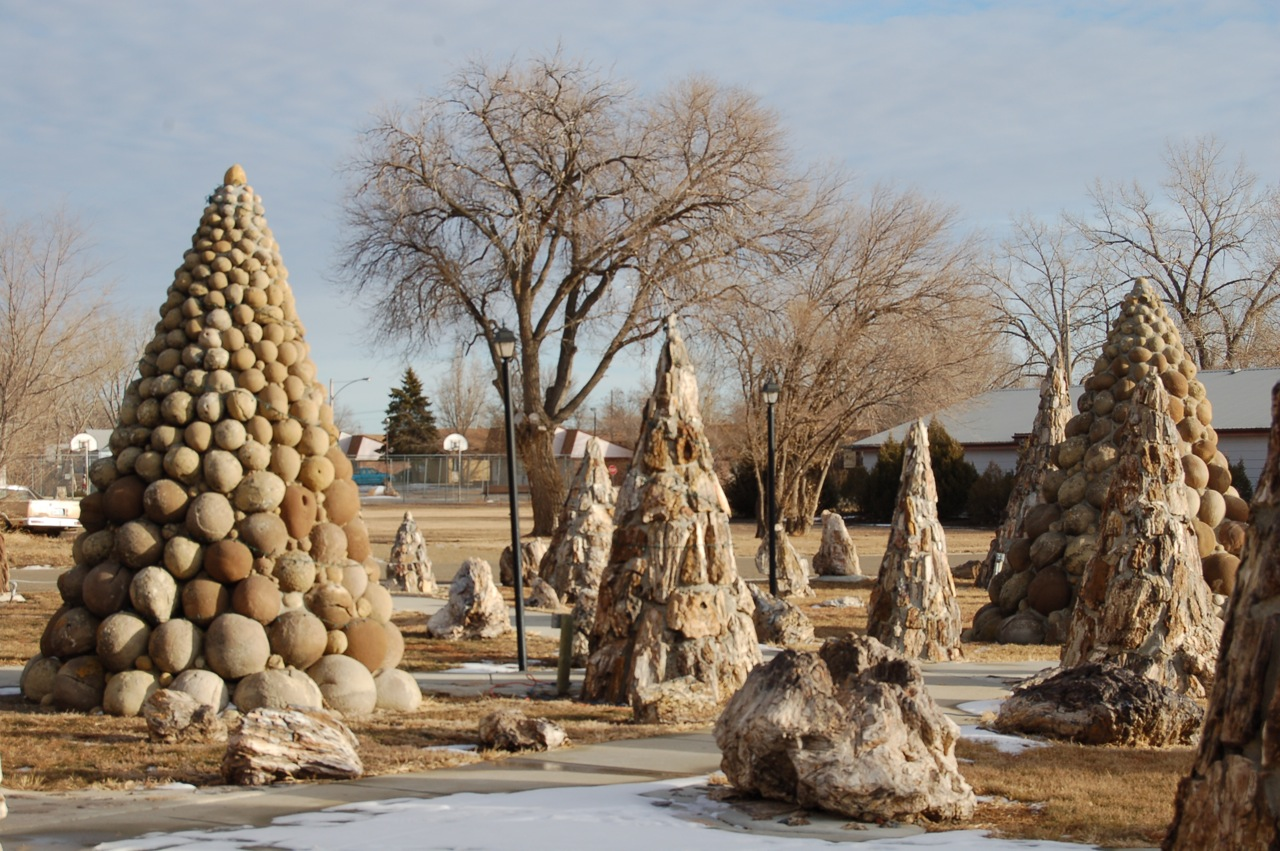 "Trees" made of petrified wood balls at the NRHP-listed Lemmon Petrified Park in Lemmon, South Dakota.